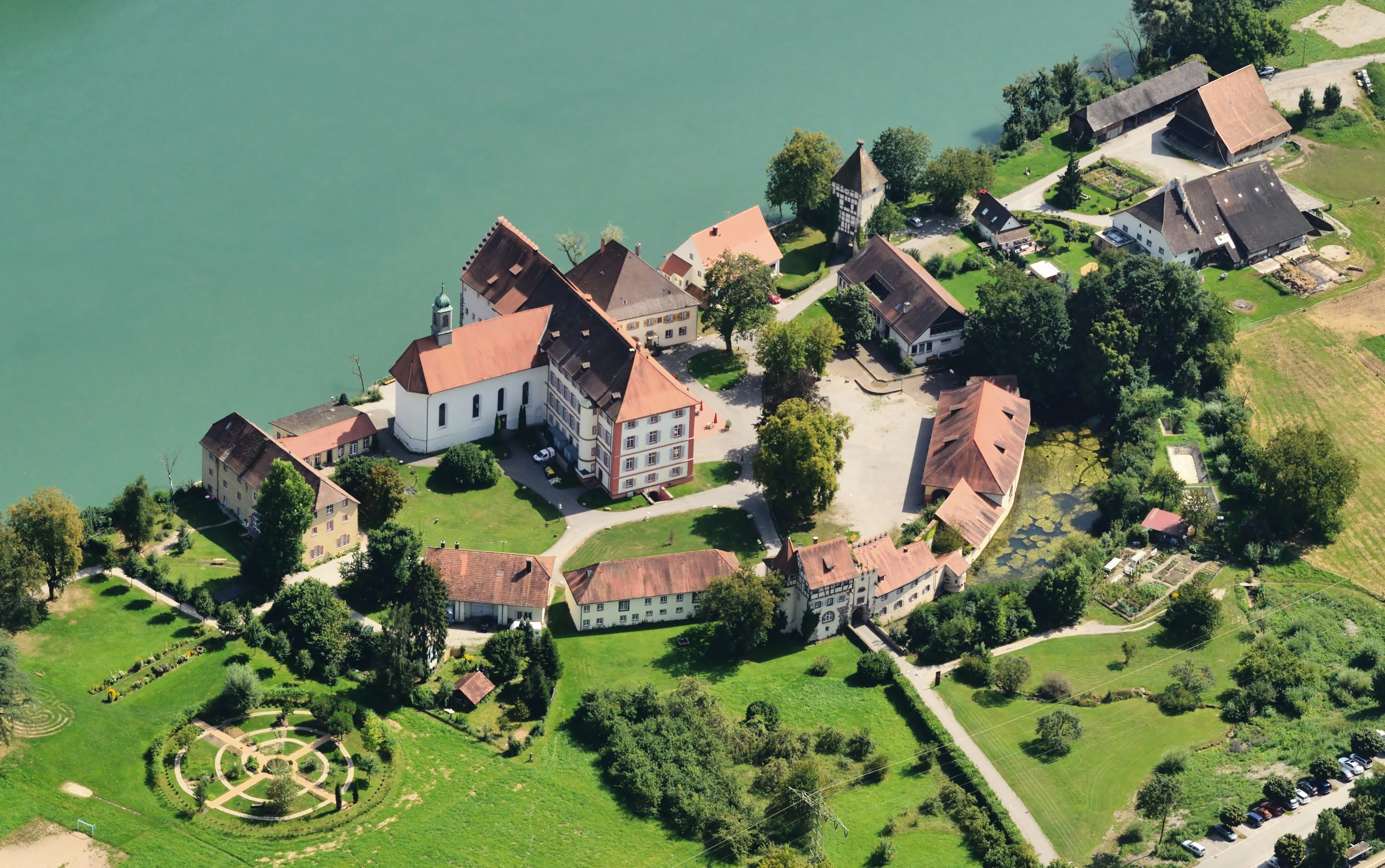 aerial view of Beuggen Castle